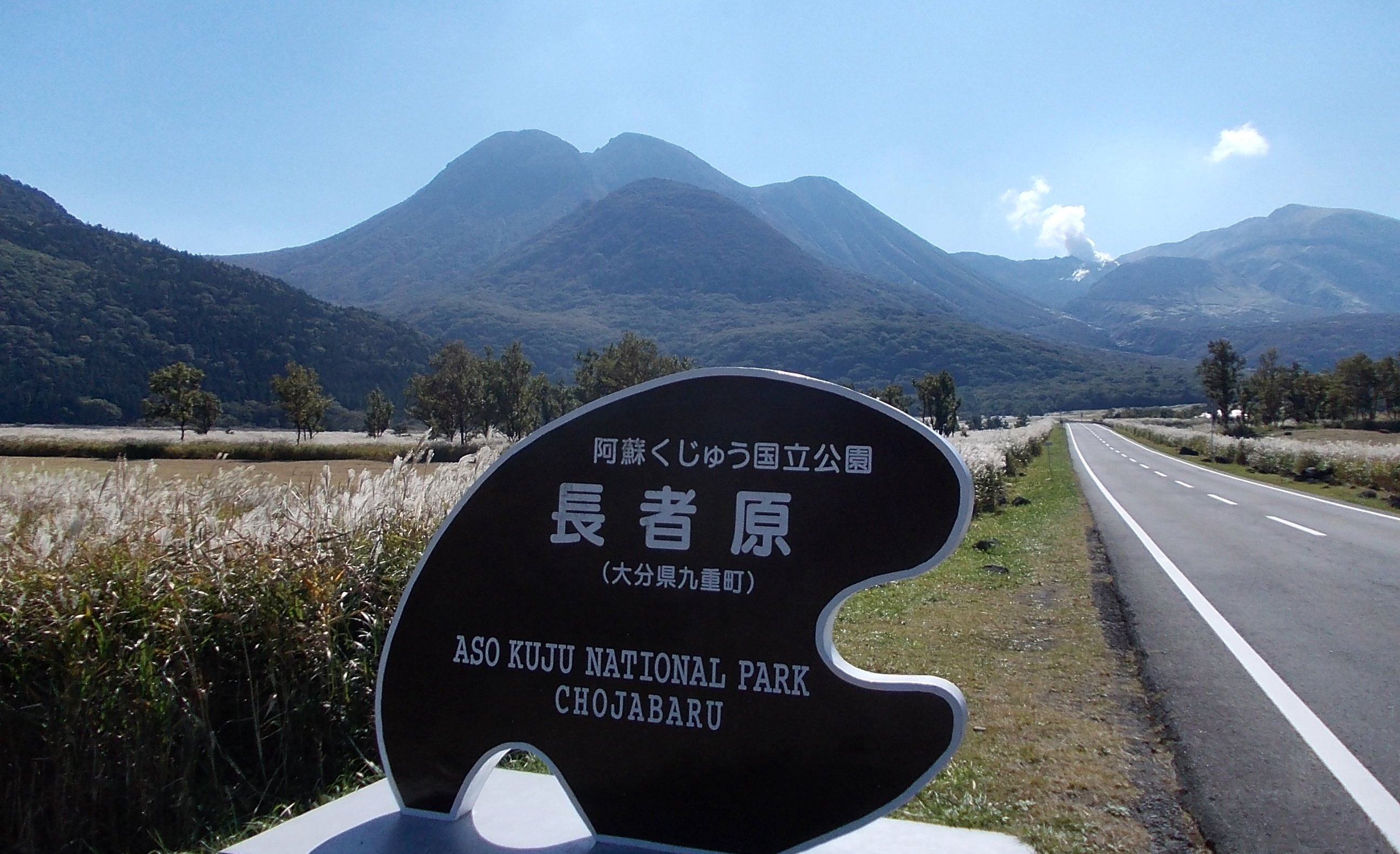 A distant view of Kuju Mountains from Chojabaru.